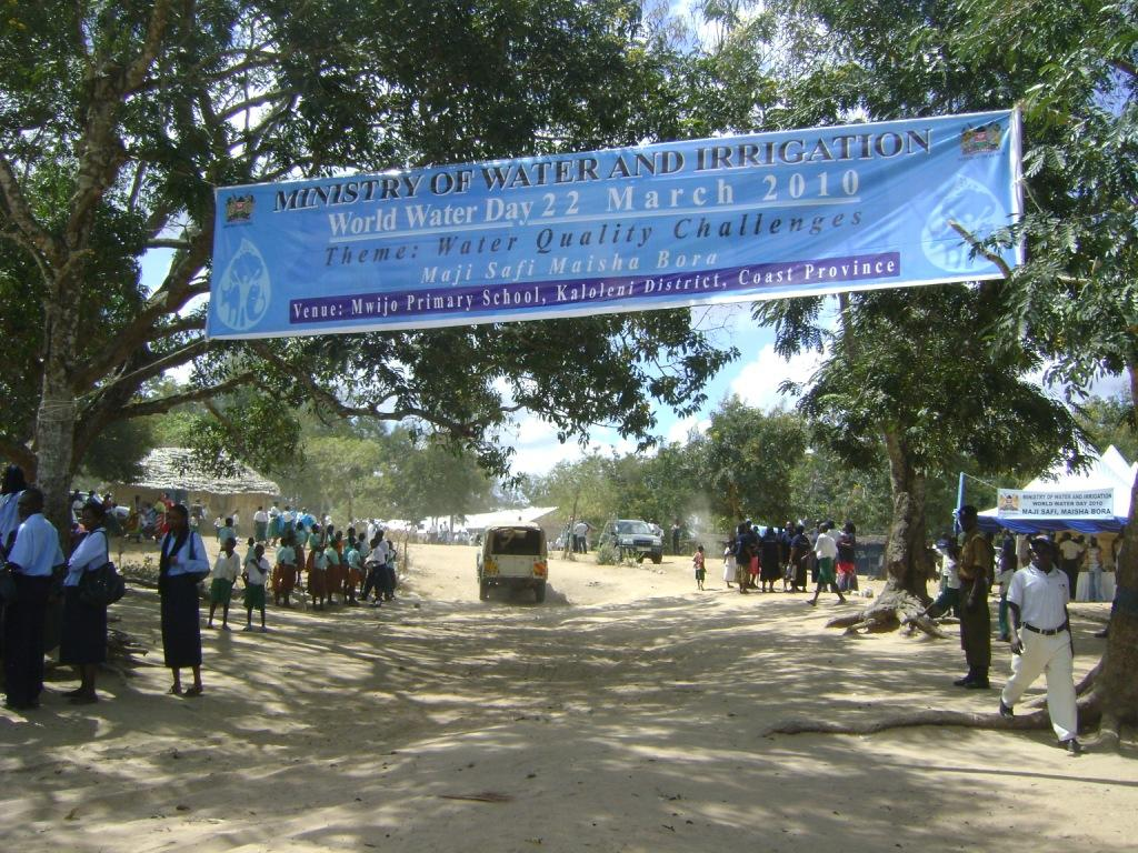 World water day - banner